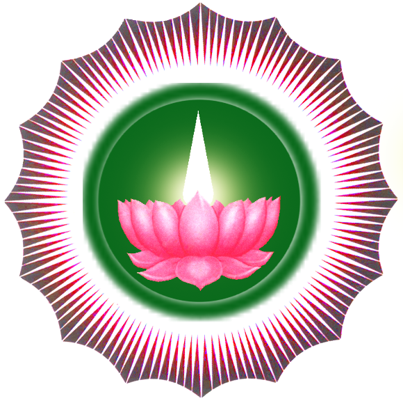 a logo of Ayyavazhi